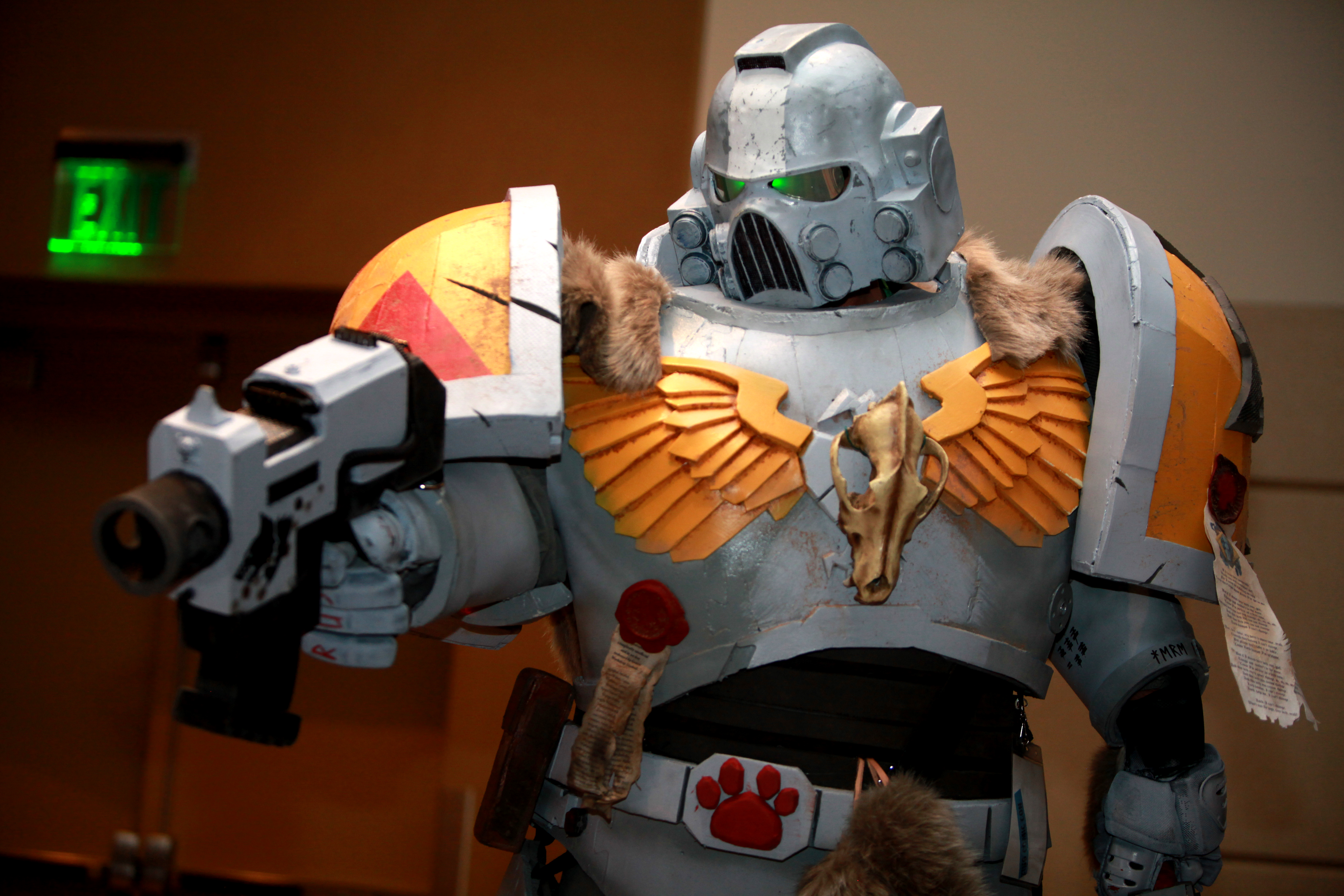 Cosplayer at the 2014 Amazing Arizona Comic Con at the Phoenix Convention Center in Phoenix, Arizona.